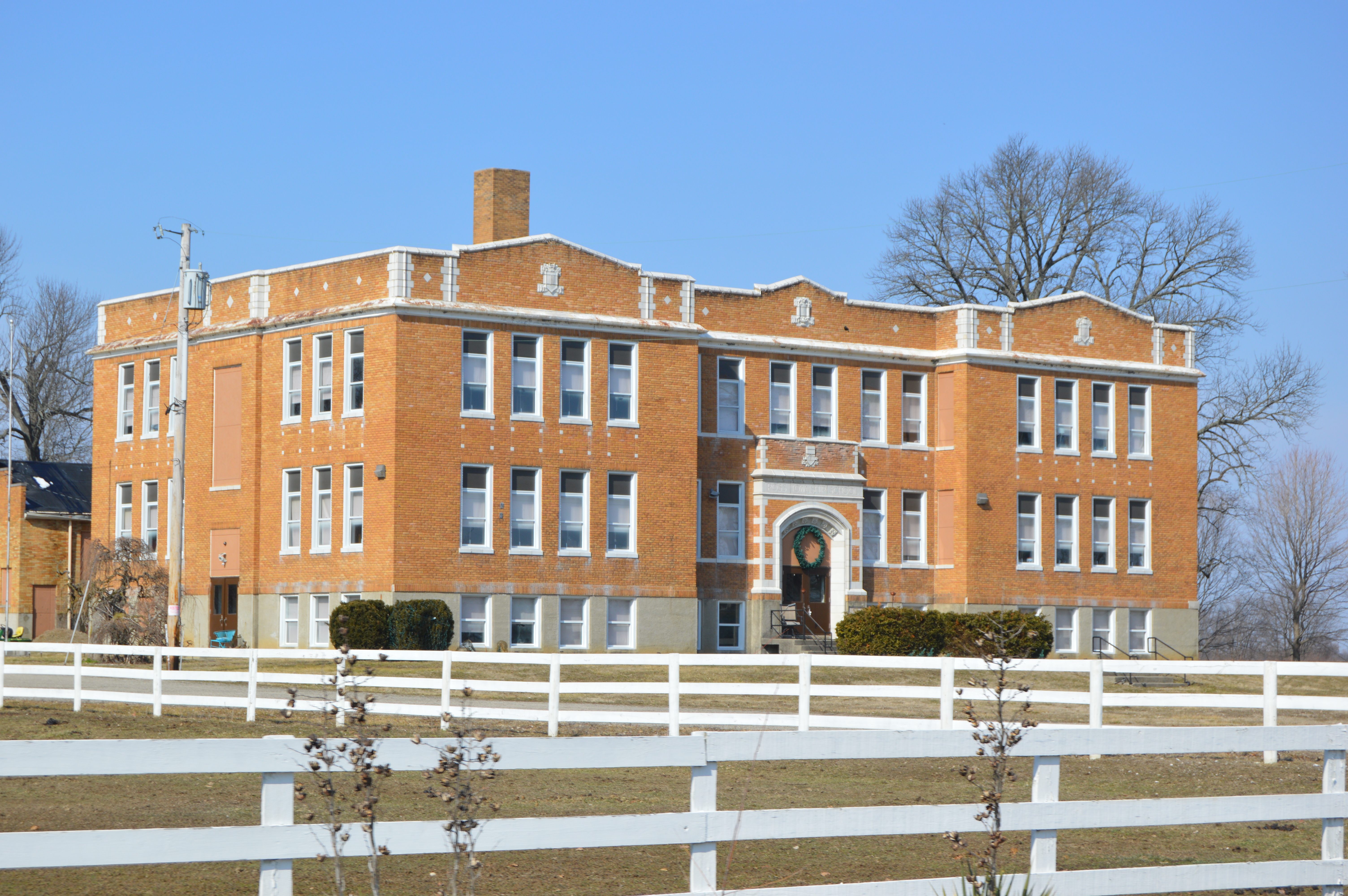 Front and southwestern side of the former Ross Township School, located on South Charleston Road just north of the Grape Grove Road intersection in Ross Township, Greene County, Ohio, United States.